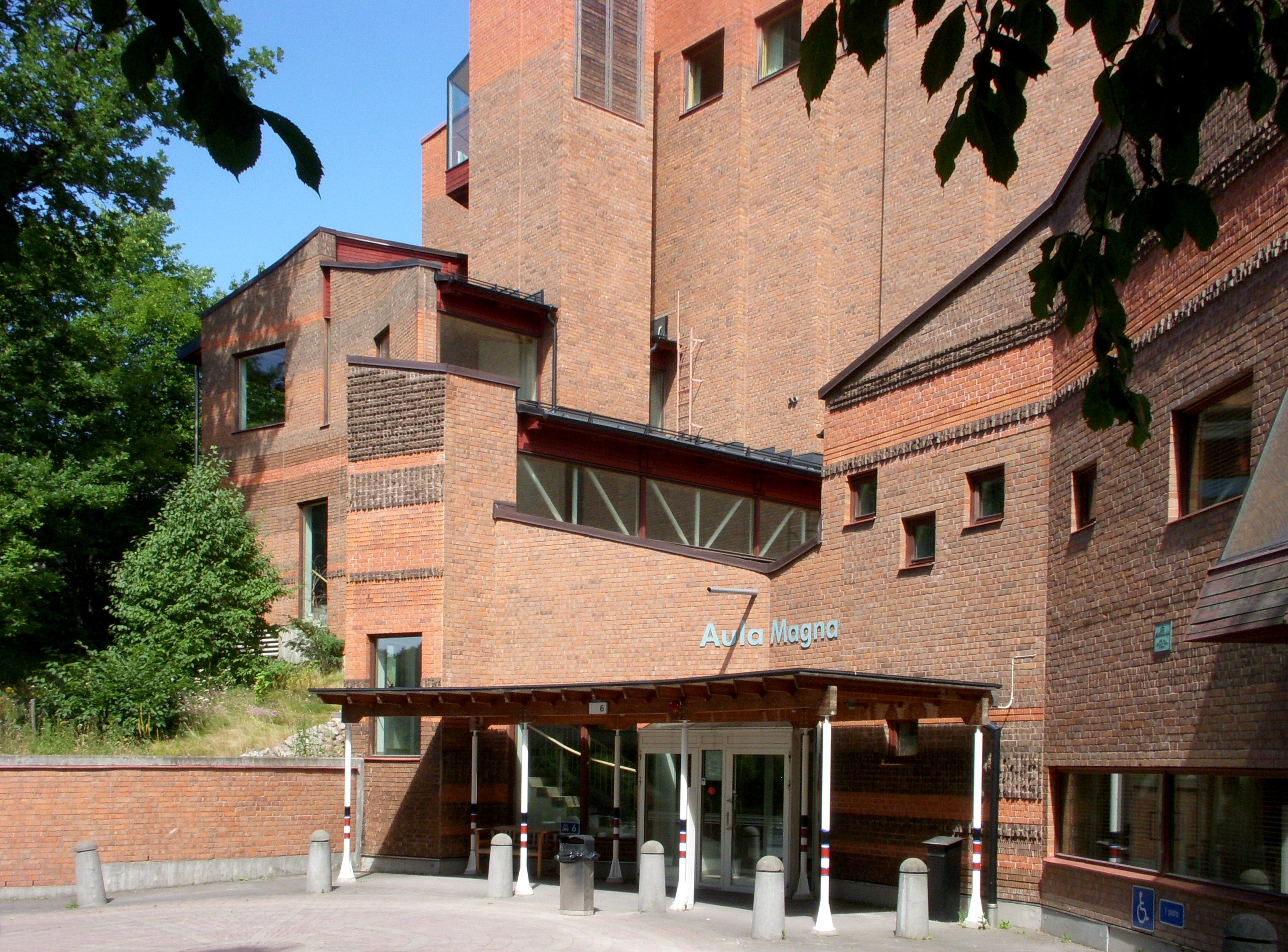 Southern entrance of Aula Magna, Stockholm University